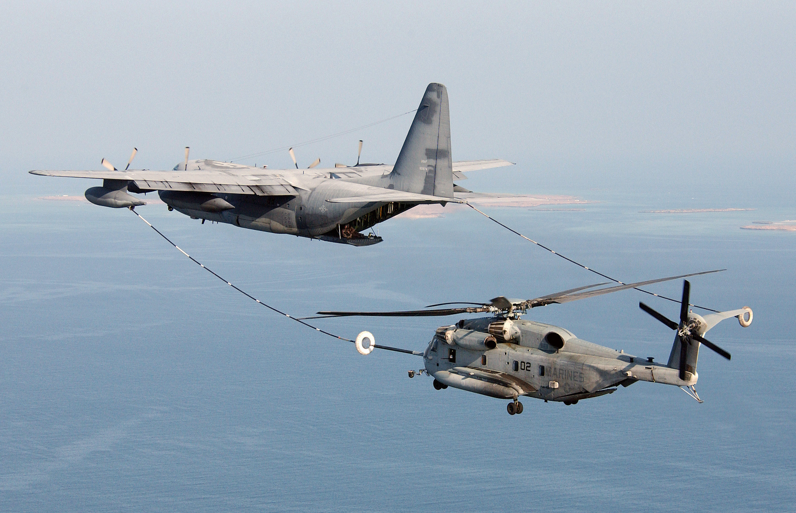 A U.S. Marine Corps CH-53 Super Stallion helicopter from Marine Heavy Helicopter Squadron 464 (HMH-464), Detachment Alpha approaches an U.S. Air Force HC-130P Hercules aircraft from the 106th Rescue Wing, 102nd Rescue Squadron for aerial refueling over Djibouti during Operation ENDURING FREEDOM.